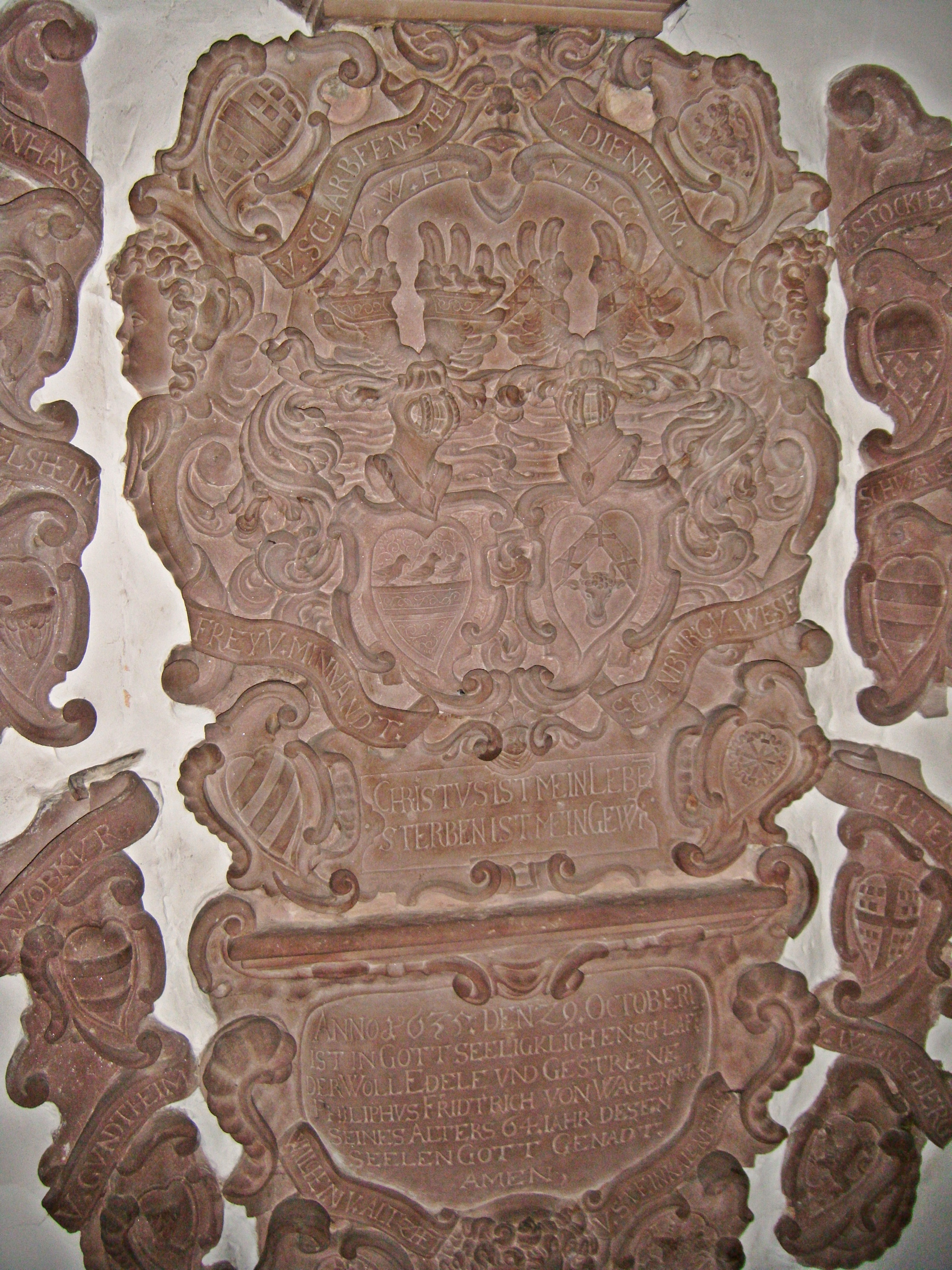 Neuleiningen, kath. Kirche St. Nikolaus, Epitaph des Ritters Philipp Friedrich von Wachenheim (+ 1635), Detail